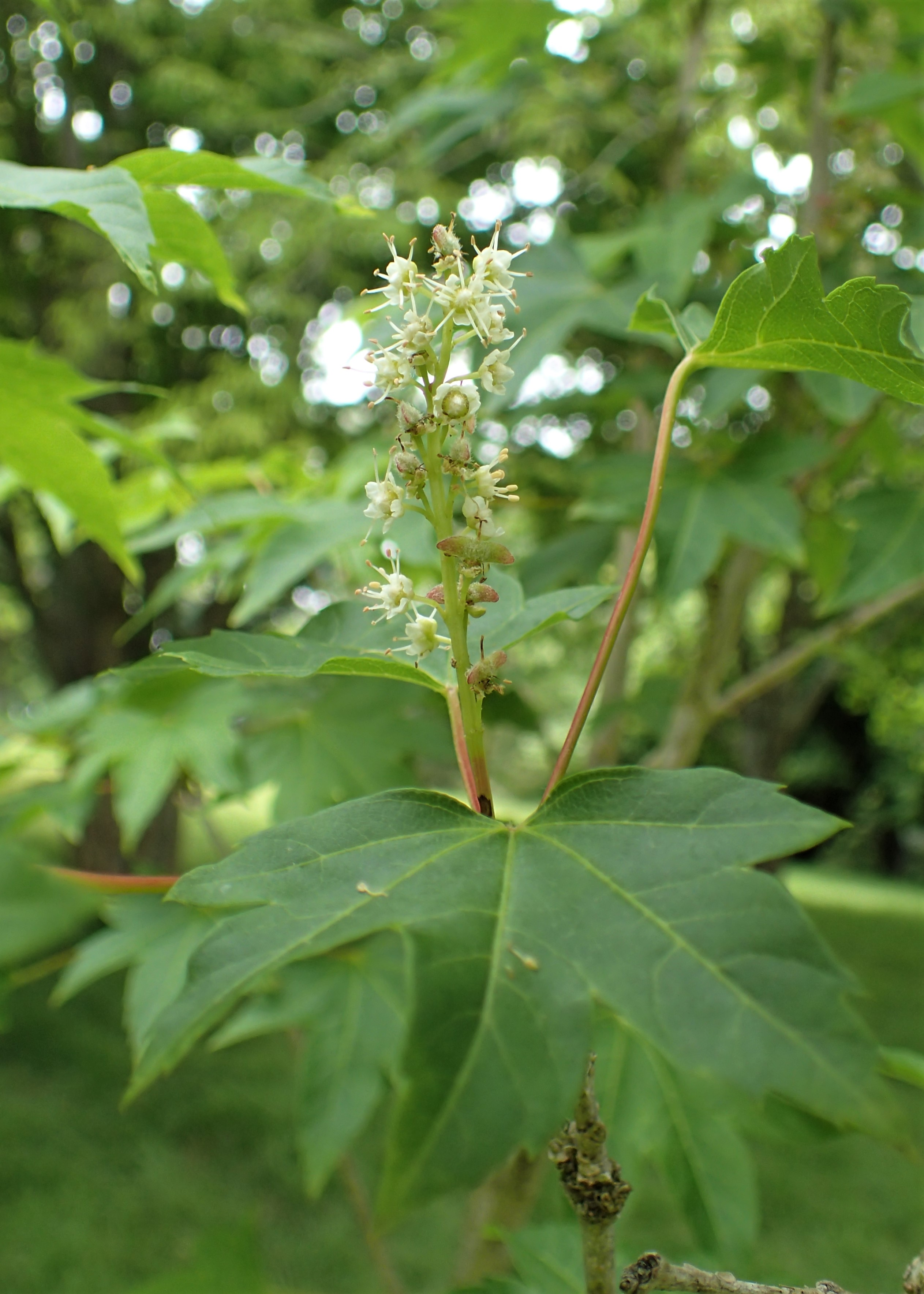 Acer erianthum in Hackfalls Arboretum, Hawkes's Bay, NZ